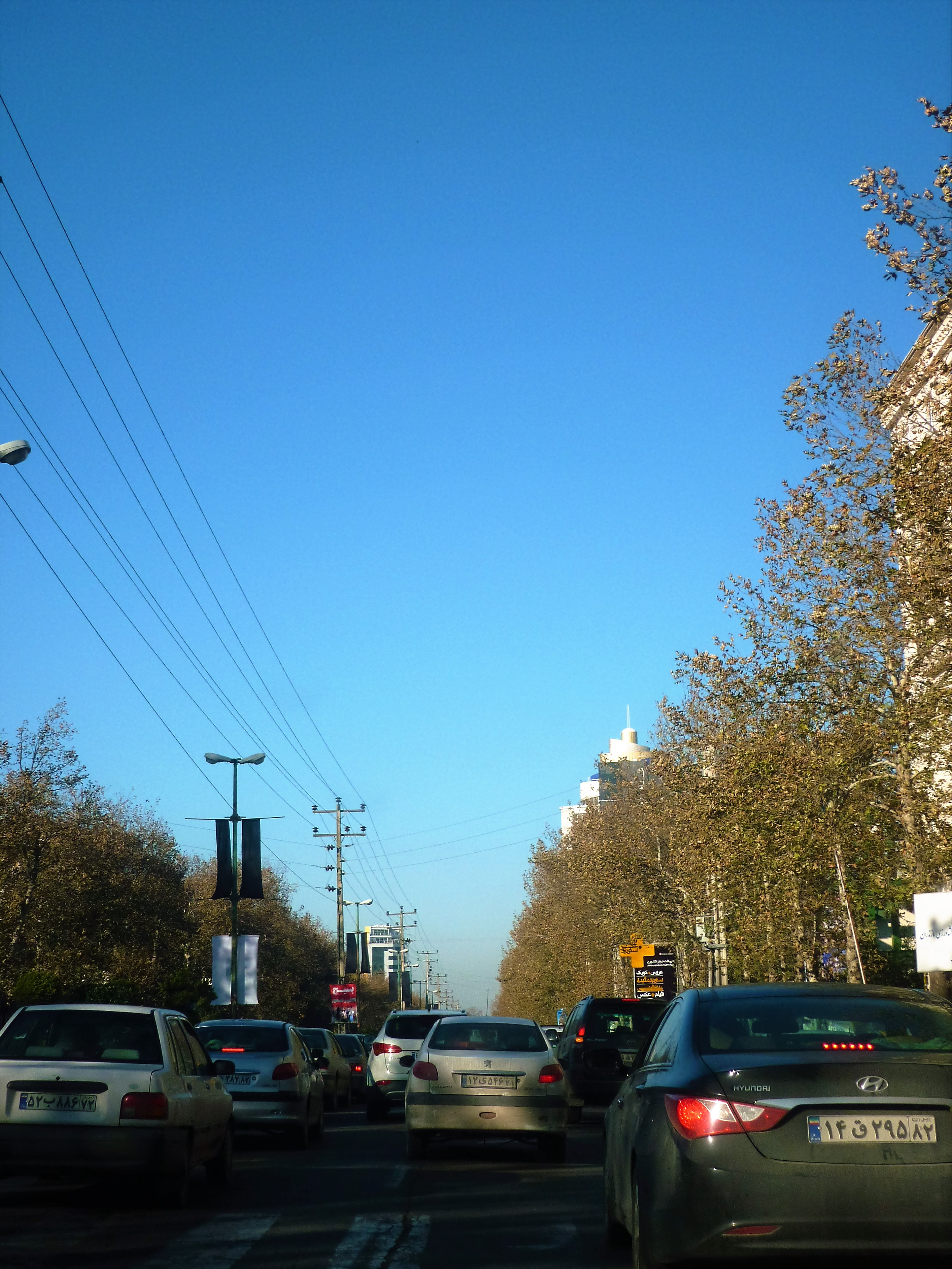 Haraz Street Trafic